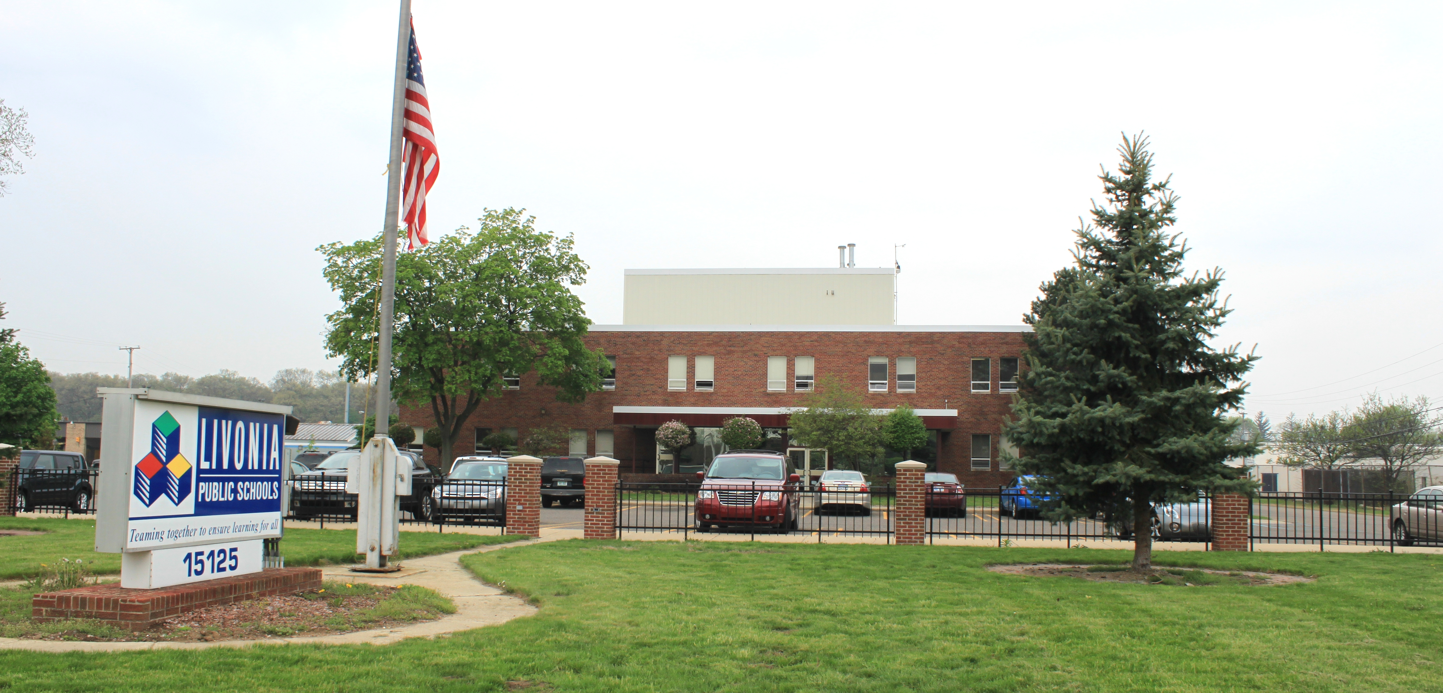 Livonia Public Schools Administration Building, 15125 Farmington Road, Livonia, Michigan